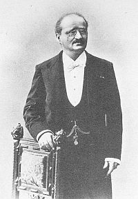 Ernesto Köhler (1849-1907), Flutist